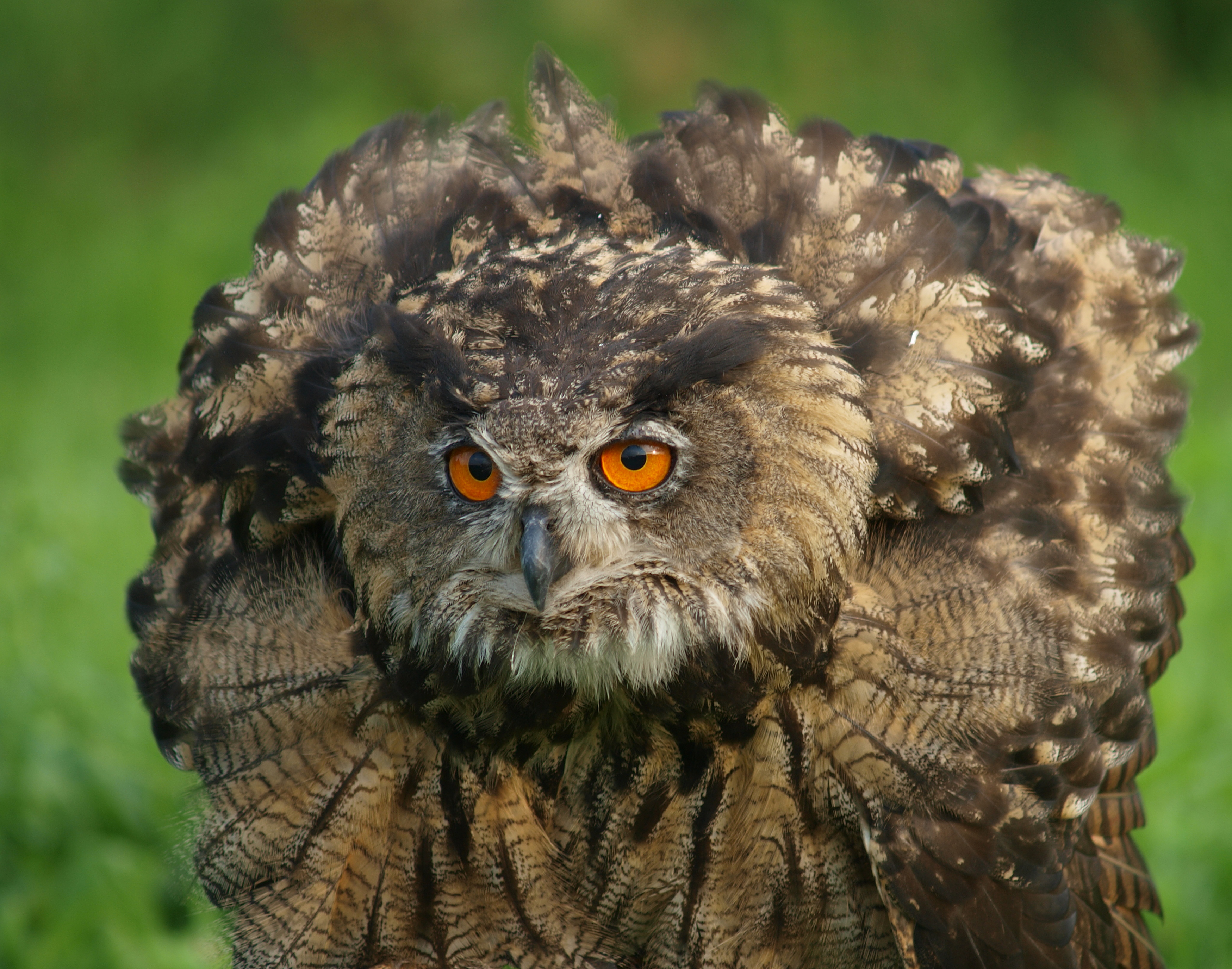 Eurasian Eagle-Owl